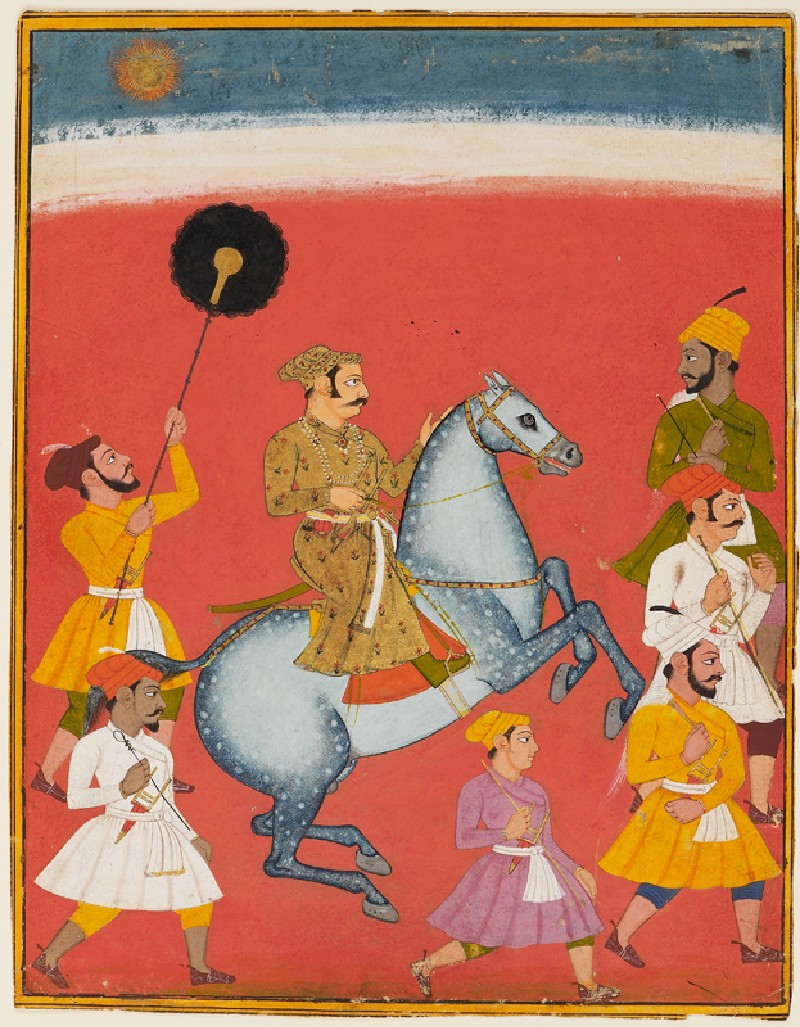 Maharana Raj Singh riding, Udaipur, c1670 Raj Singh I, Maharana of Mewar (ruled 1652 - 1680) Mounted on a rearing horse, Maharana Raj Singh is accompanied by attendants on foot. This boldly coloured reinterpretation of a common Mughal portrait convention represents the Mewar ruler more as the ideal Rajput martial hero than as a closely observed individual. Source: Ashmolean Museum, University of Oxford